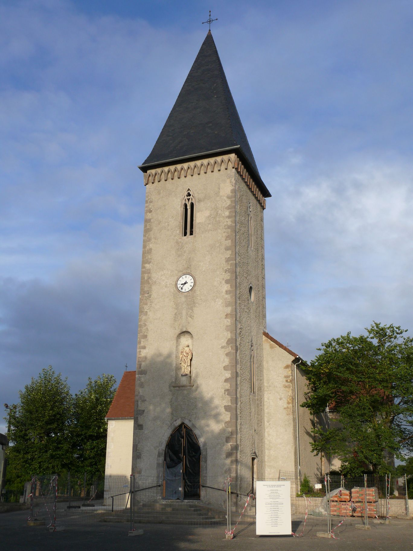 Saint-Laurent's church in Castétis (Pyrénées-Atlantiques, France).